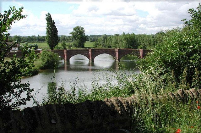 View from St Michael & All Angels, Clifton Hampden, Oxon